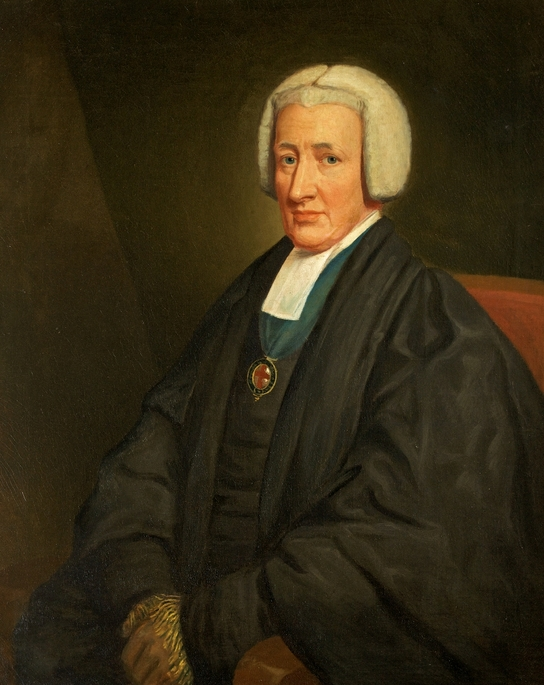 Portrait of the Bishop John Fisher (1748–1825). Courtesy of the collection of Salisbury Guildhall.